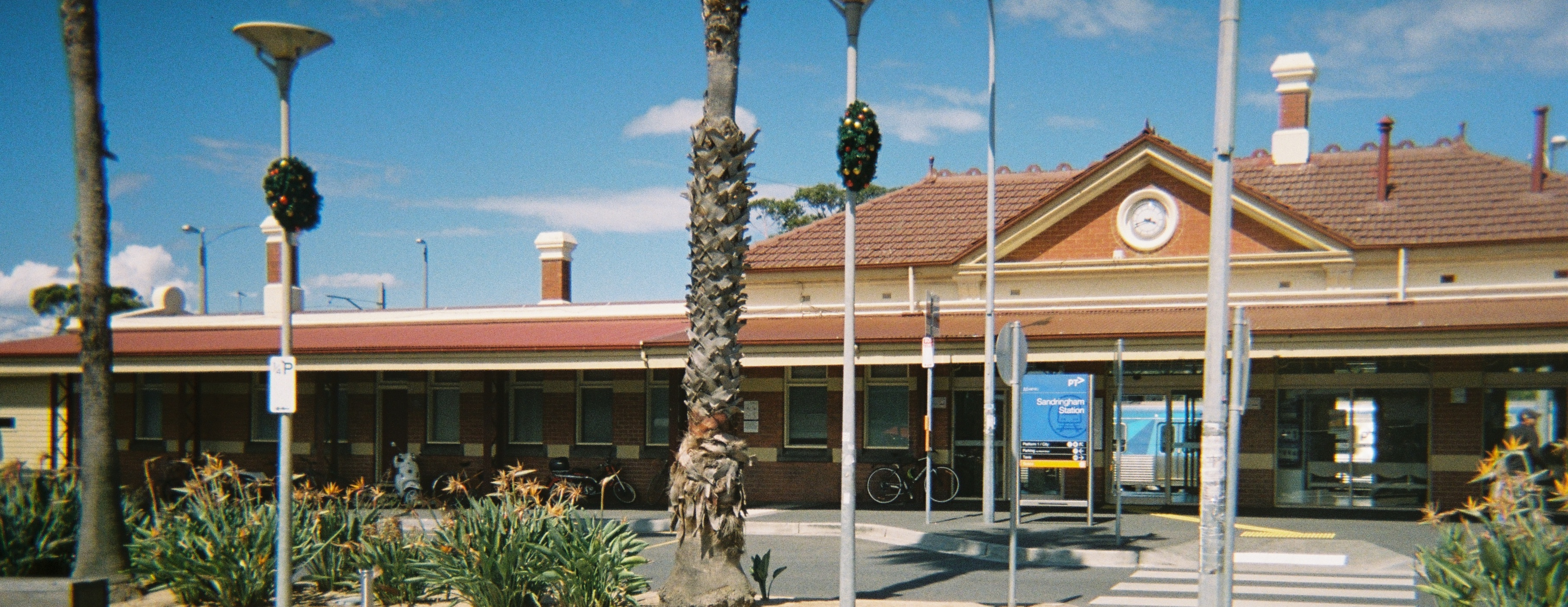 Sandringham station in 2017.